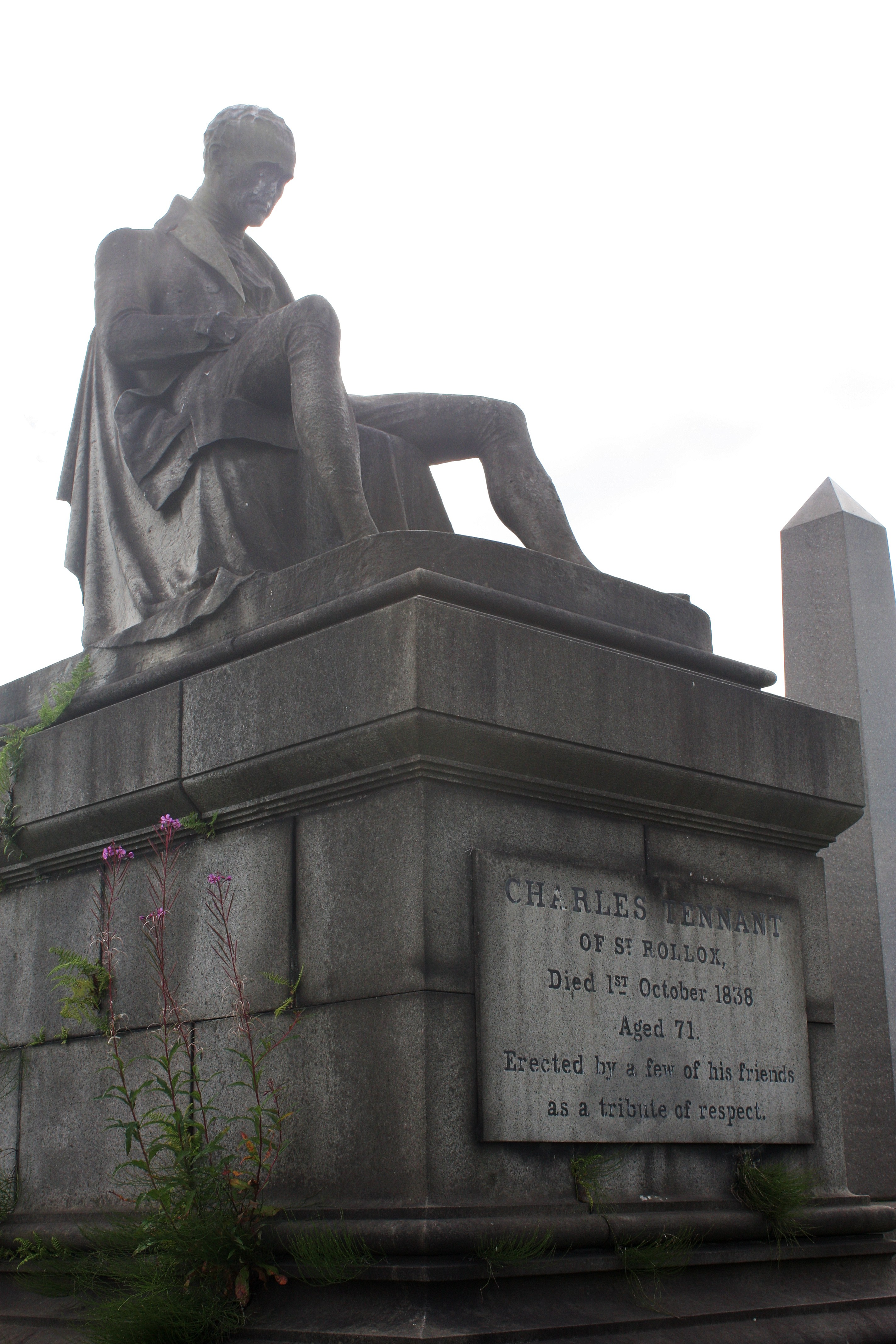 Monument to Charles Tennant in Glasgow Necropolis, with figure by Patric Park. Glasgow, Scotland.